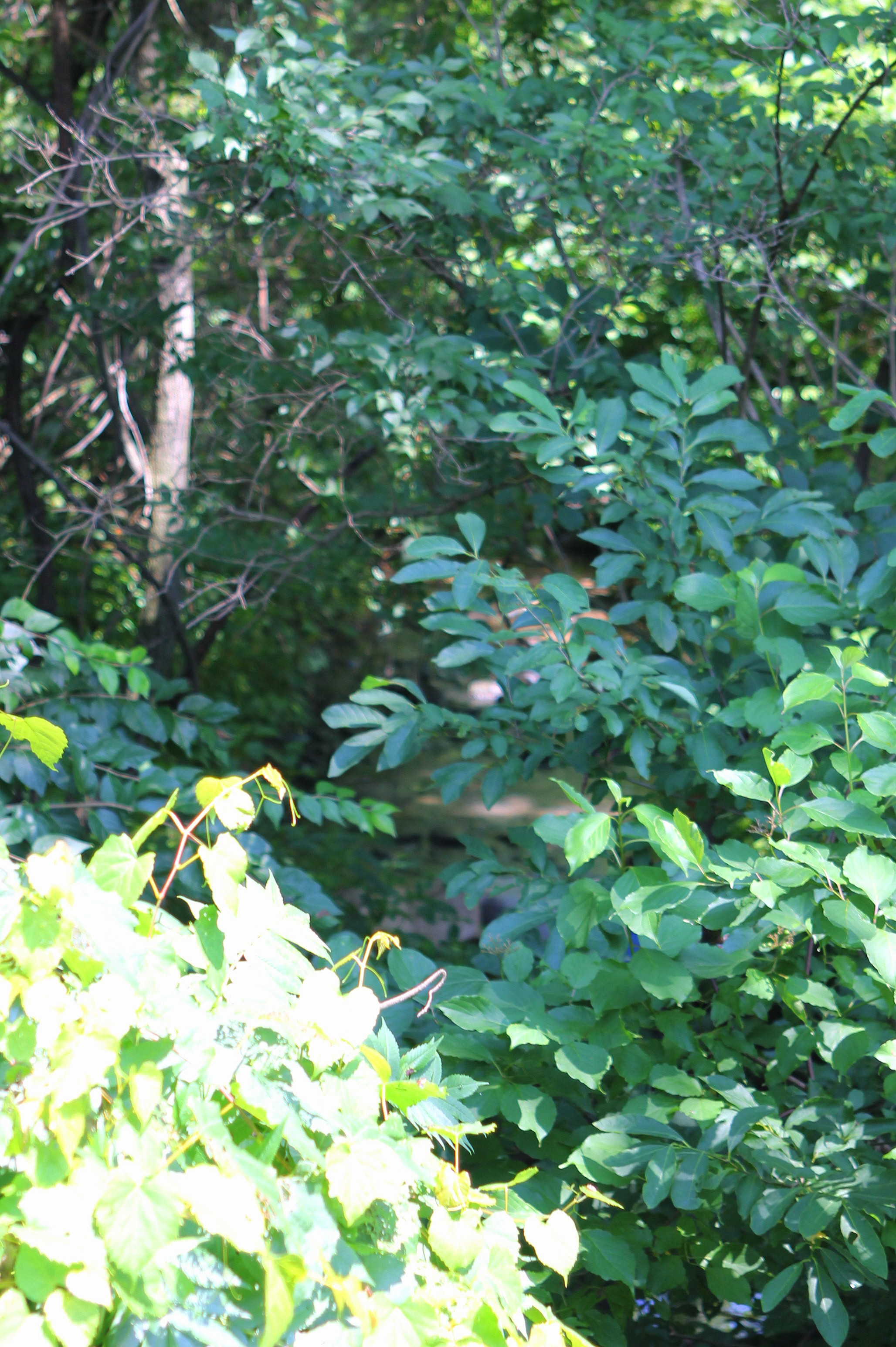 Packers Run, almost completely obscured by shrubbery, looking upstream